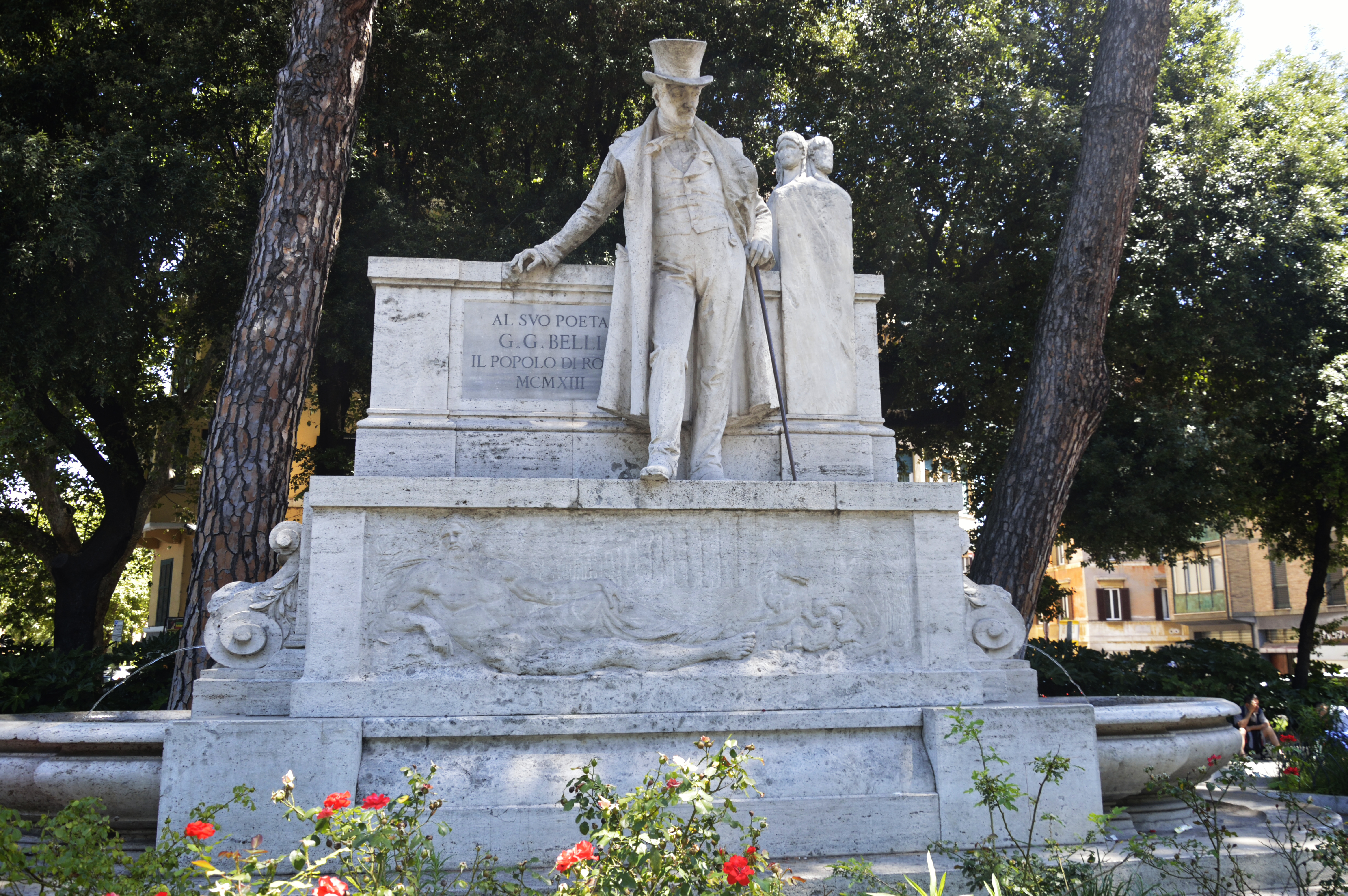 Gioacchino belli